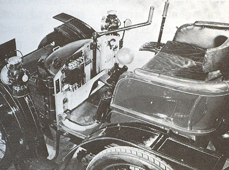 1899 Wolseley 3½ hp (prototype) Austin's and Wolseley's third car and the first four-wheel Wolseley car. The WOLSELEY VOITURETTE exhibited 25 January 1900 to 3 February 1900 at Midland Cycle and Motor Car Exhibition, Birmingham Awarded first prize in Section 1, Class B of the Thousand Miles Trial of April and May 1900 arranged by Automobile Club of Great Britain and Ireland. It was driven by Herbert Austin. In 1949 still in perfect running order in the Wolseley company's private museum — St John C Nixon, WOLSELEY, a saga of the motor industry, G T Foulis & Co, London, 1949